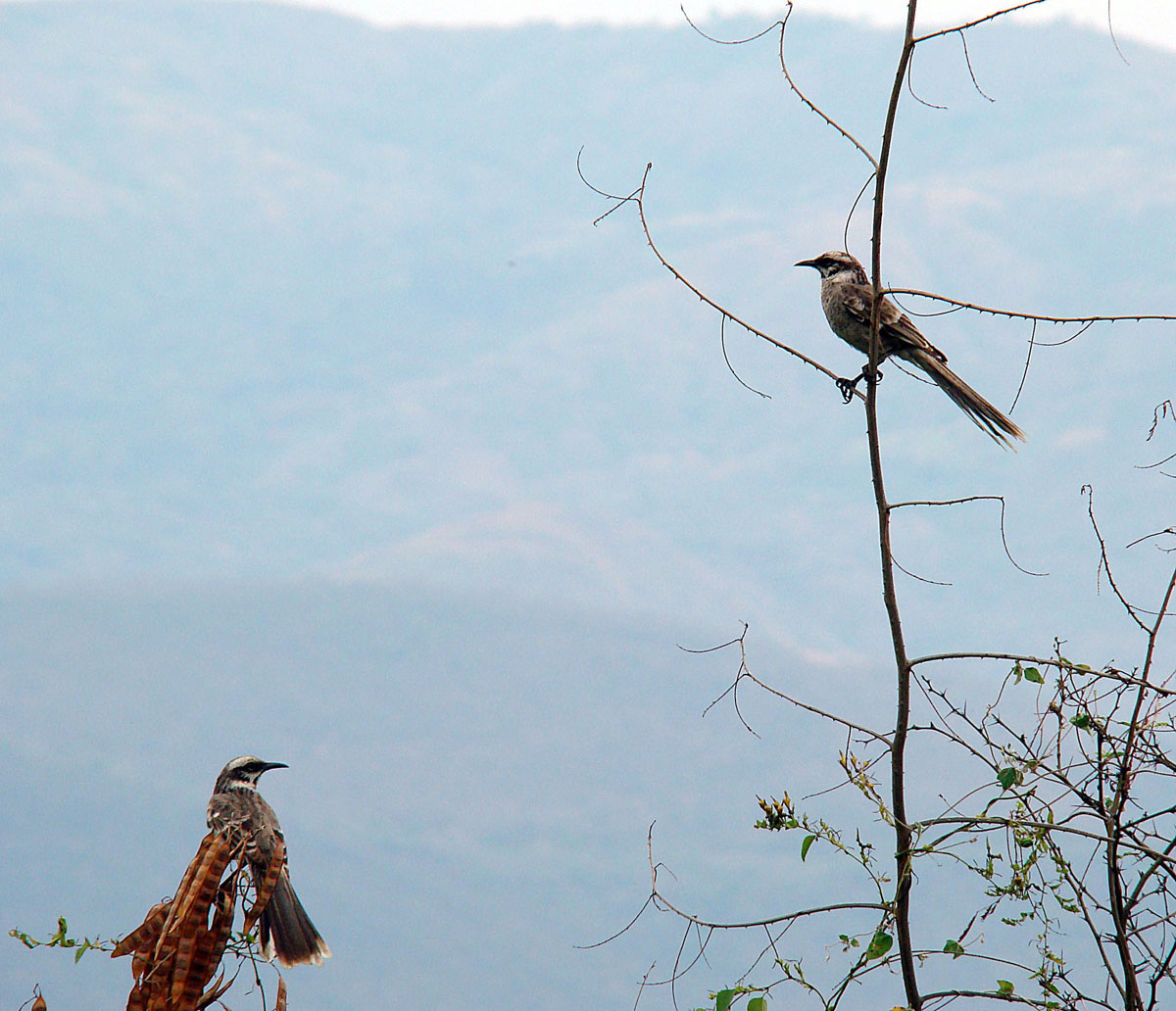 Long-tailed Mockingbirds are found in Ecuador and Peru. Photo from near Jaen, northern Peru.